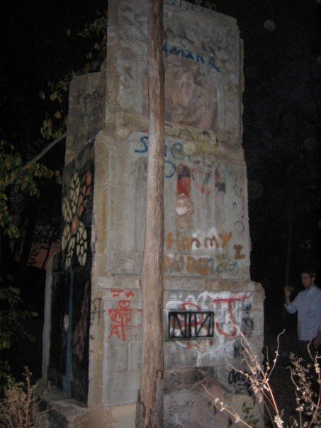 Fire place remnants at Monte Ne, Arkansas. This fireplace is all that remains of Missouri Row.